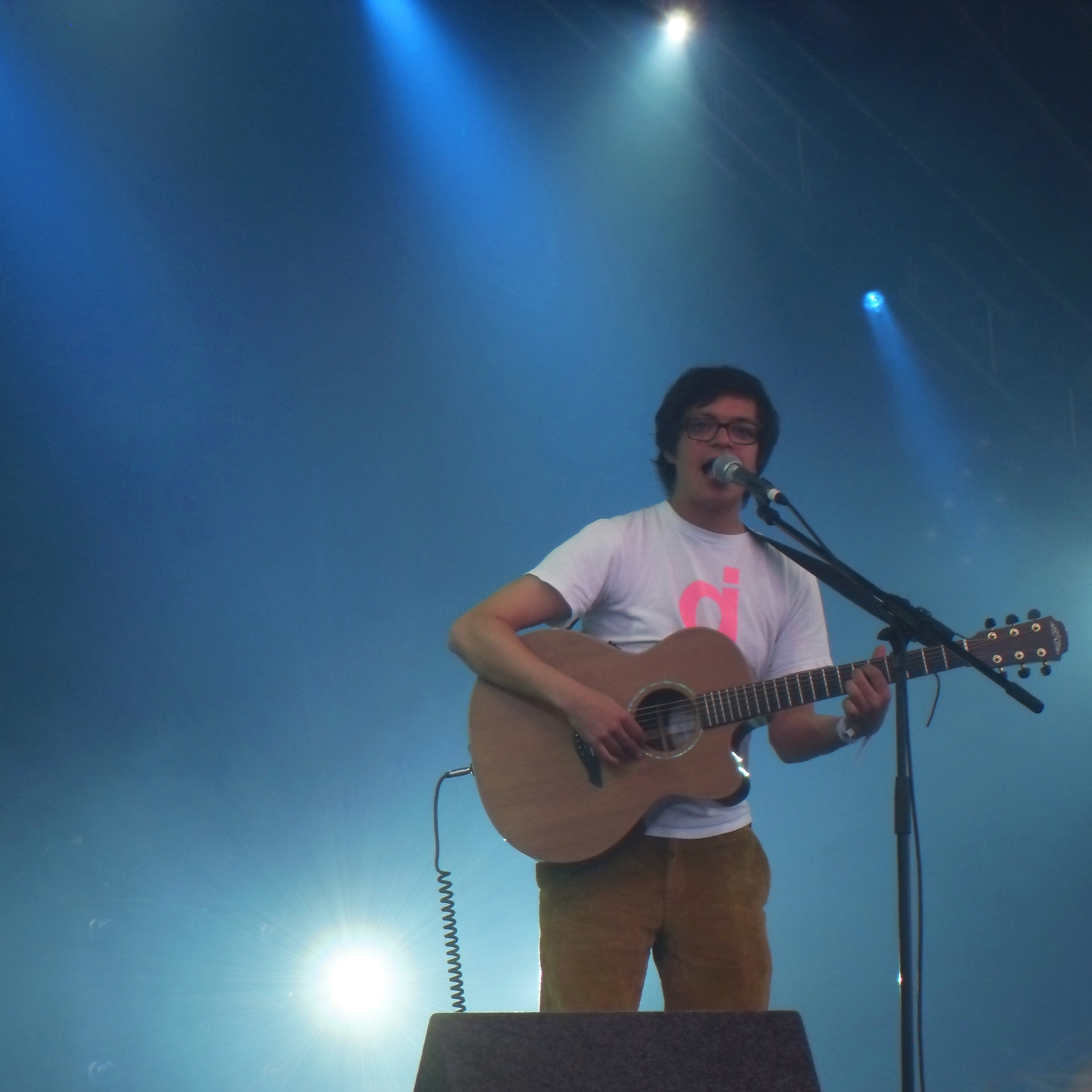 Sam Duckworth, live at Nottingham Splendour.